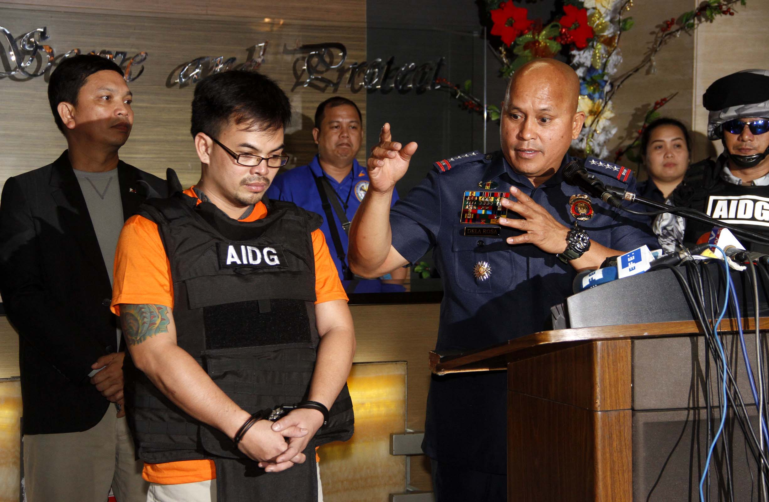 Philippine National Police Chief Ronald Dela Rosa with Kerwin Espinosa during a press conference on November 18, 2016. The official description is as follows: “Philippine National Police Chief Director General Ronald dela Rosa presented before the media early Friday alleged drug lord Kerwin Espinosa in Camp Crame, Quezon City. Espinosa, wearing a bullet-proof vest, arrived back to the country from Abu Dhabi at dawn on Friday.”